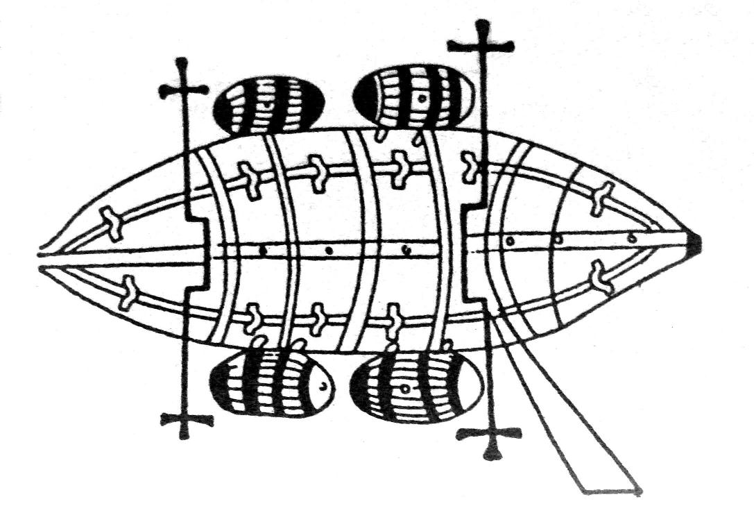 Guido_da_Vigevano_submarine_1280_1349